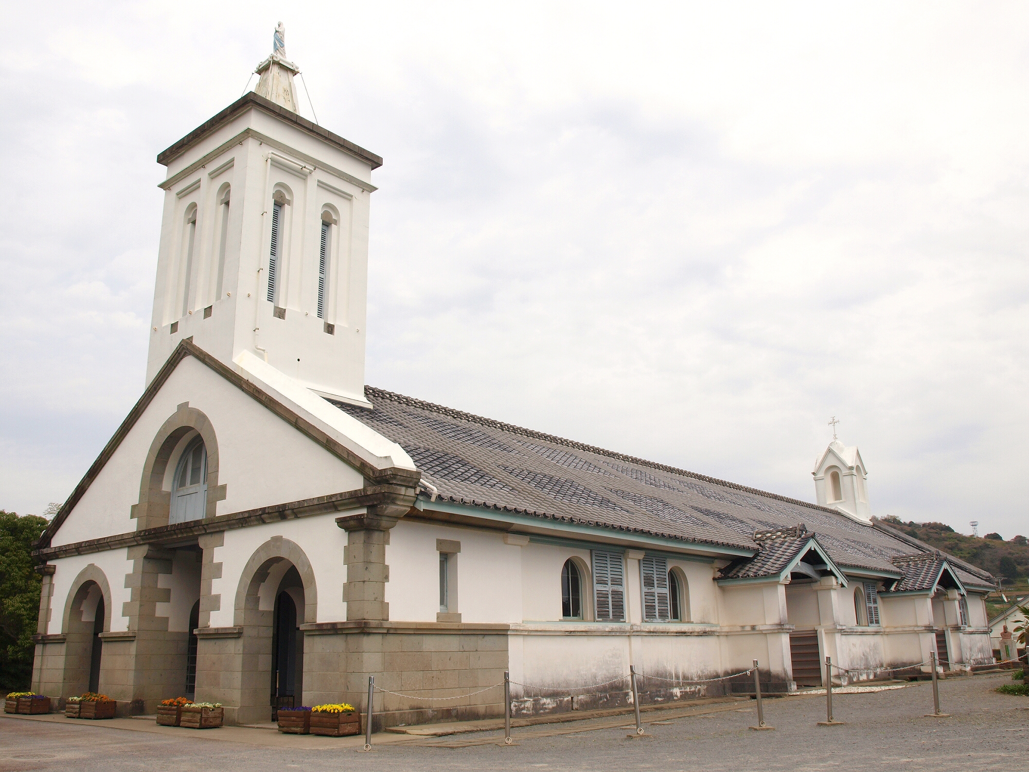 Church of the village of Shitsu in Satome